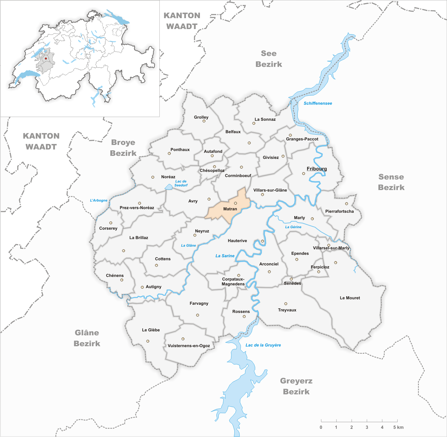 Municipality Matran